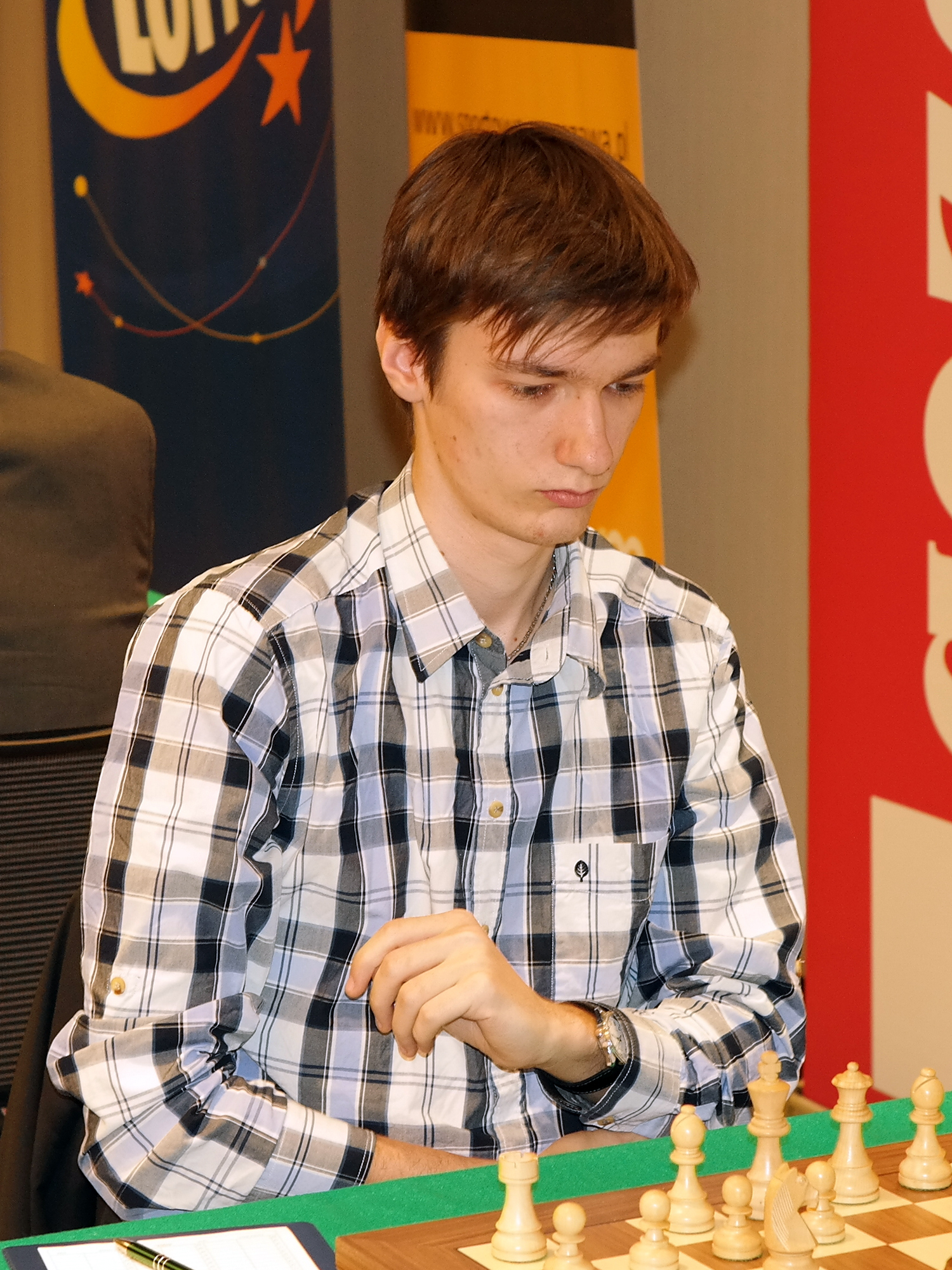 IM Daniel Sadzikowski, Polish Chess Championship, Warsaw 2014